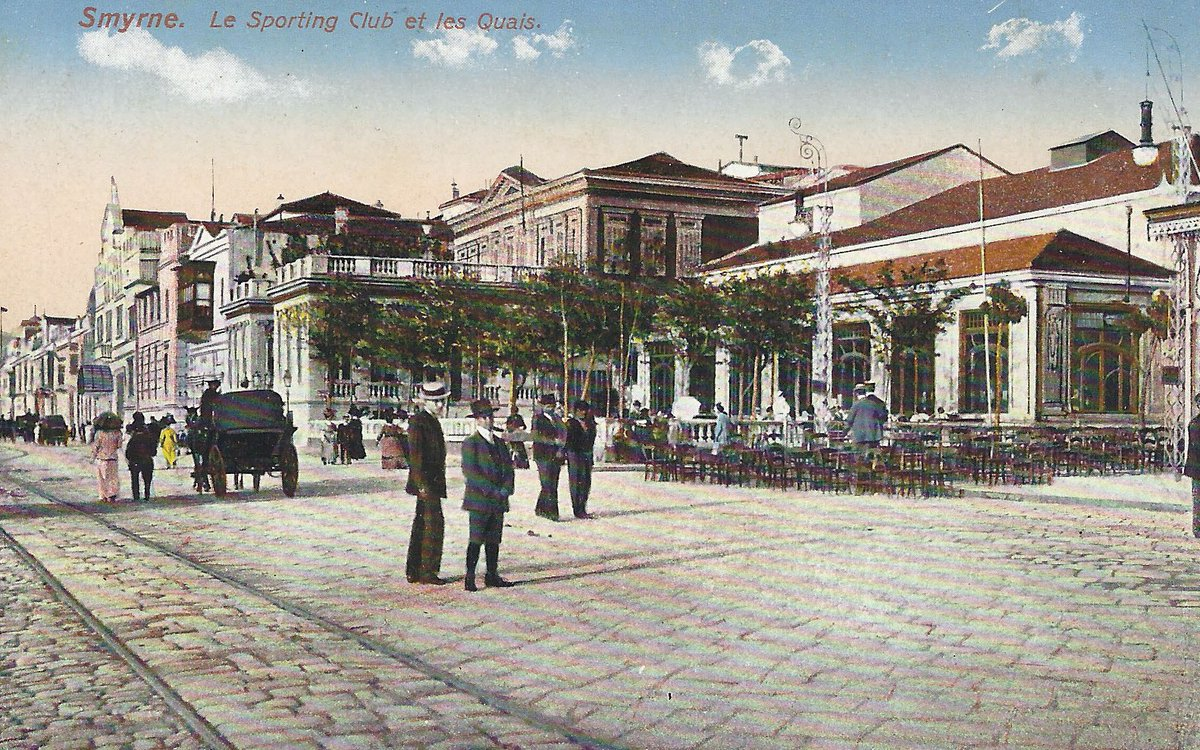 Ottoman Smyrna in 1900